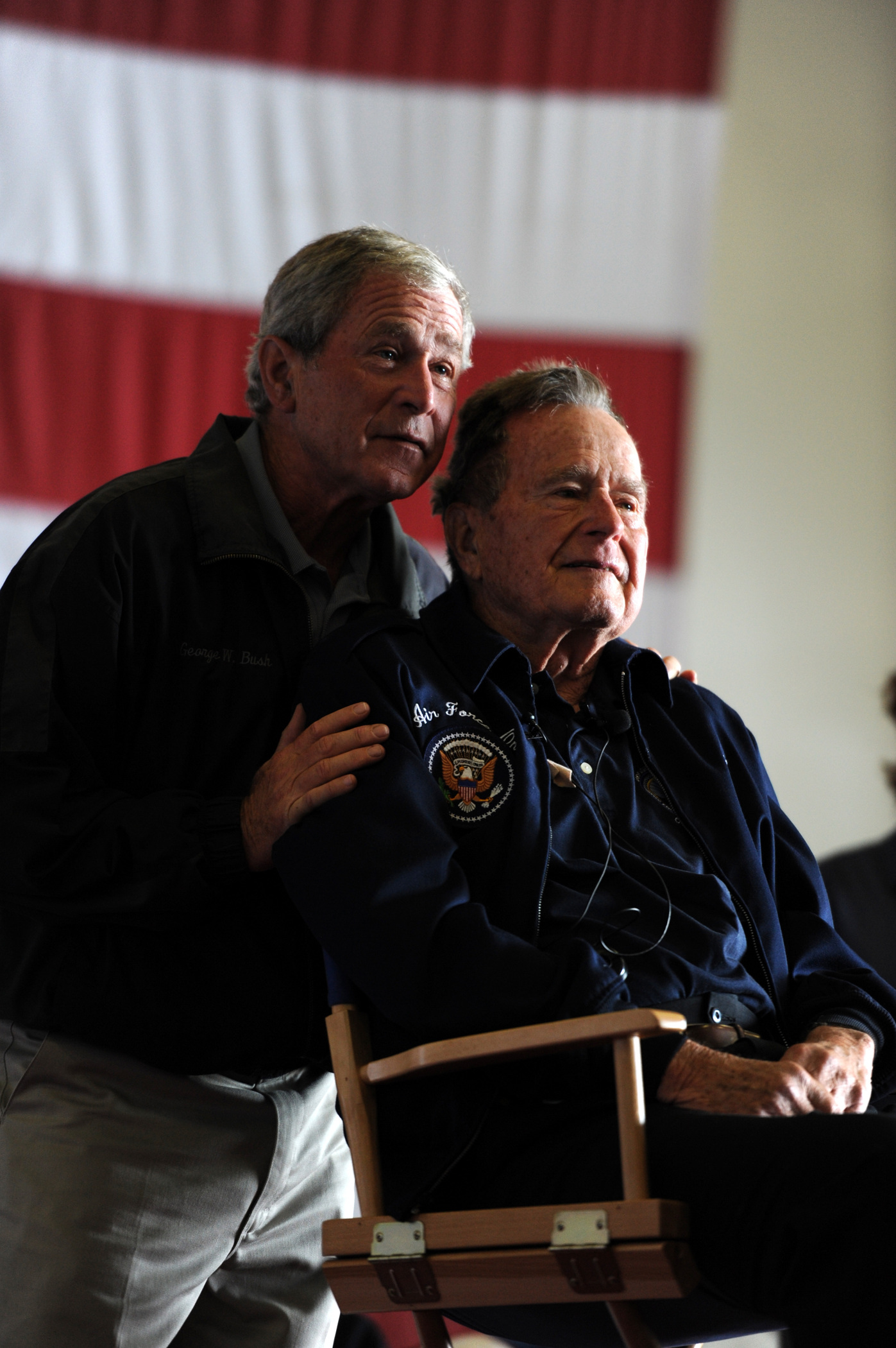 ATLANTIC OCEAN (June 10, 2012) Former Presidents George H.W. Bush and George W. Bush deliver remarks to the crew during a ceremony aboard the aircraft carrier USS George H.W. Bush (CVN 77). The Navy's newest aircraft carrier George H.W. Bush hosted the ship's namesake and former President George H.W. Bush, along with his family and friends including former President George W. Bush, for a promotion and reenlistment ceremony in the ship's hangar bay during a scheduled underway-training evolution. (U.S. Navy photo by Mass Communication Specialist 3rd Class Joshua D. Sheppard/Released) 120610-N-PW494-125 Join the conversation navylive.dodlive.mil